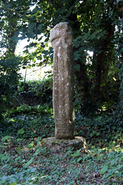 Celtic Cross in Tregaminion Chapel Yard This is one of two old stone crosses which can be found at the Chapel. Both were brought here from elsewhere.